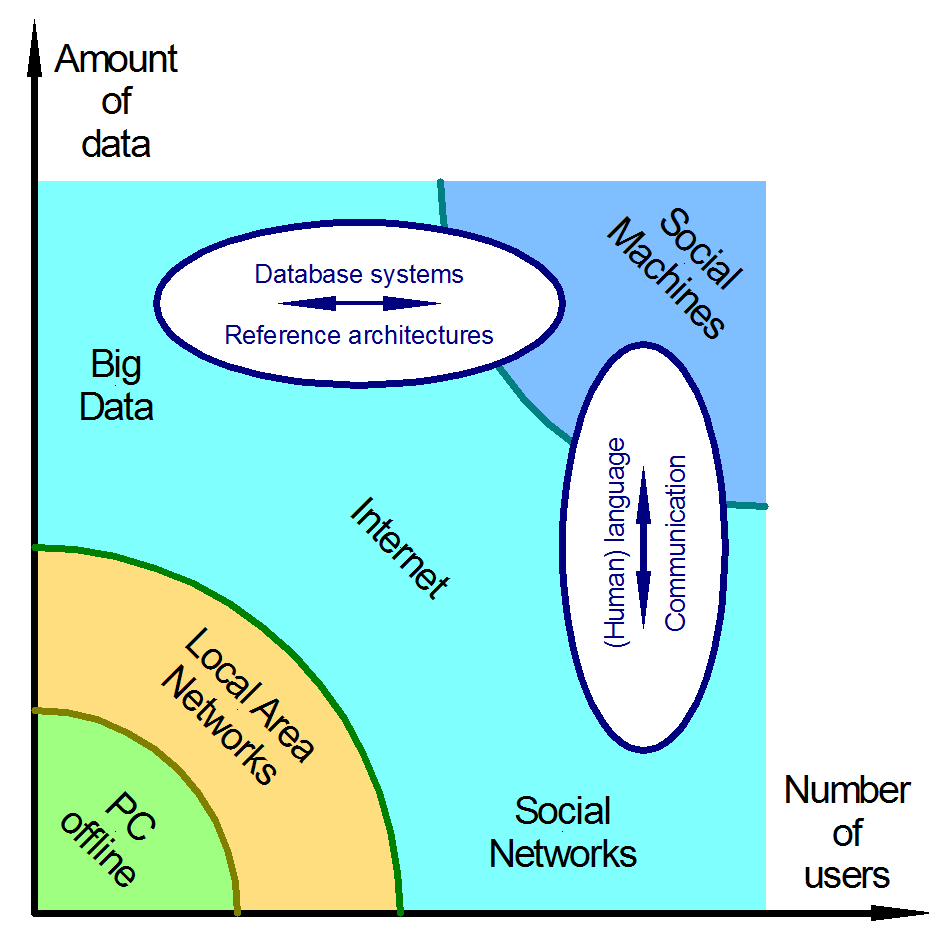 Big Data, social networks and social machines coordinated in a diagram